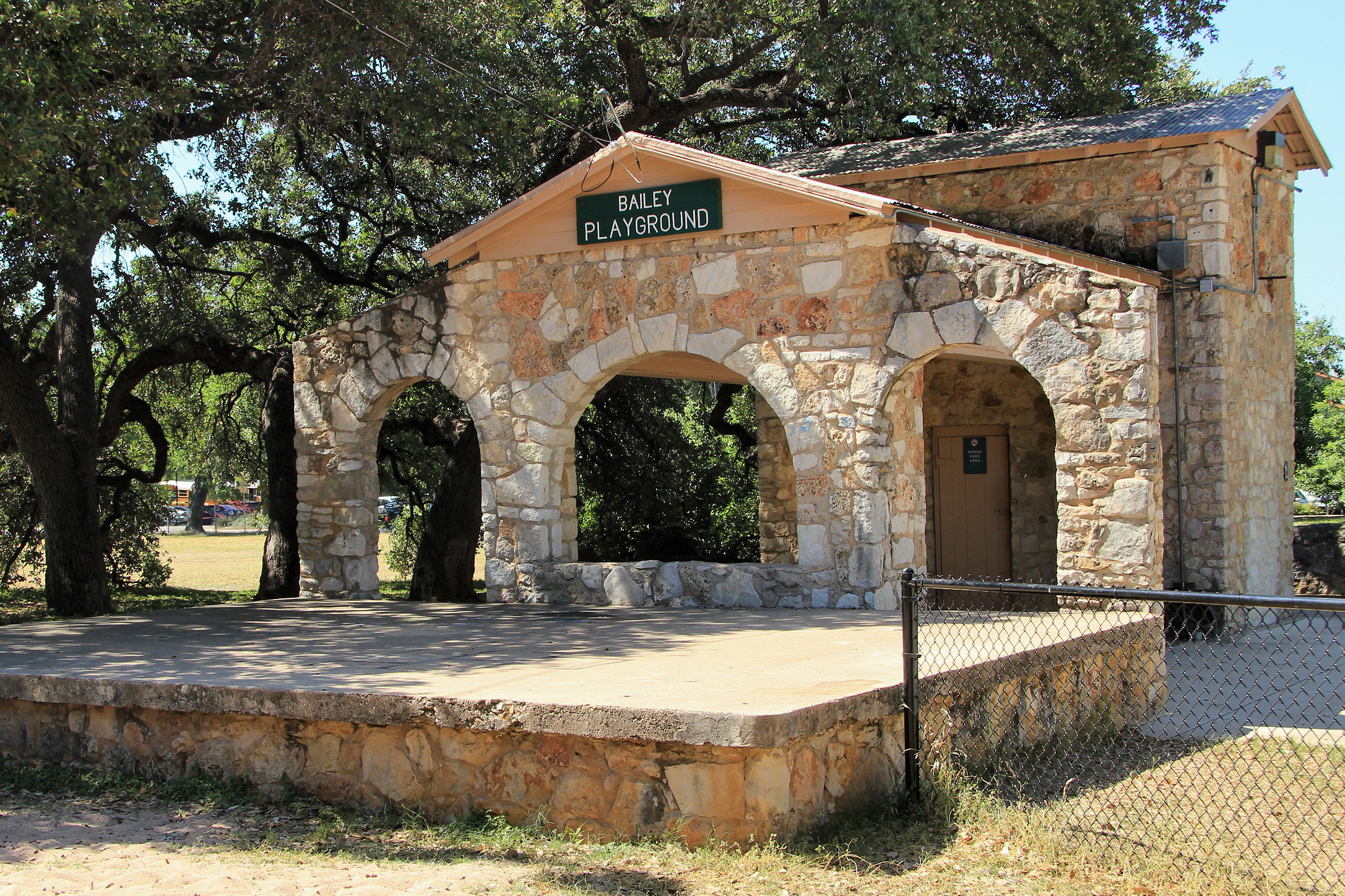 Bailey Park Shelter House, Austin, Texas, United States. In 1935, the Works Progress Administration authorized funds for construction and improvements at Bailey Park.